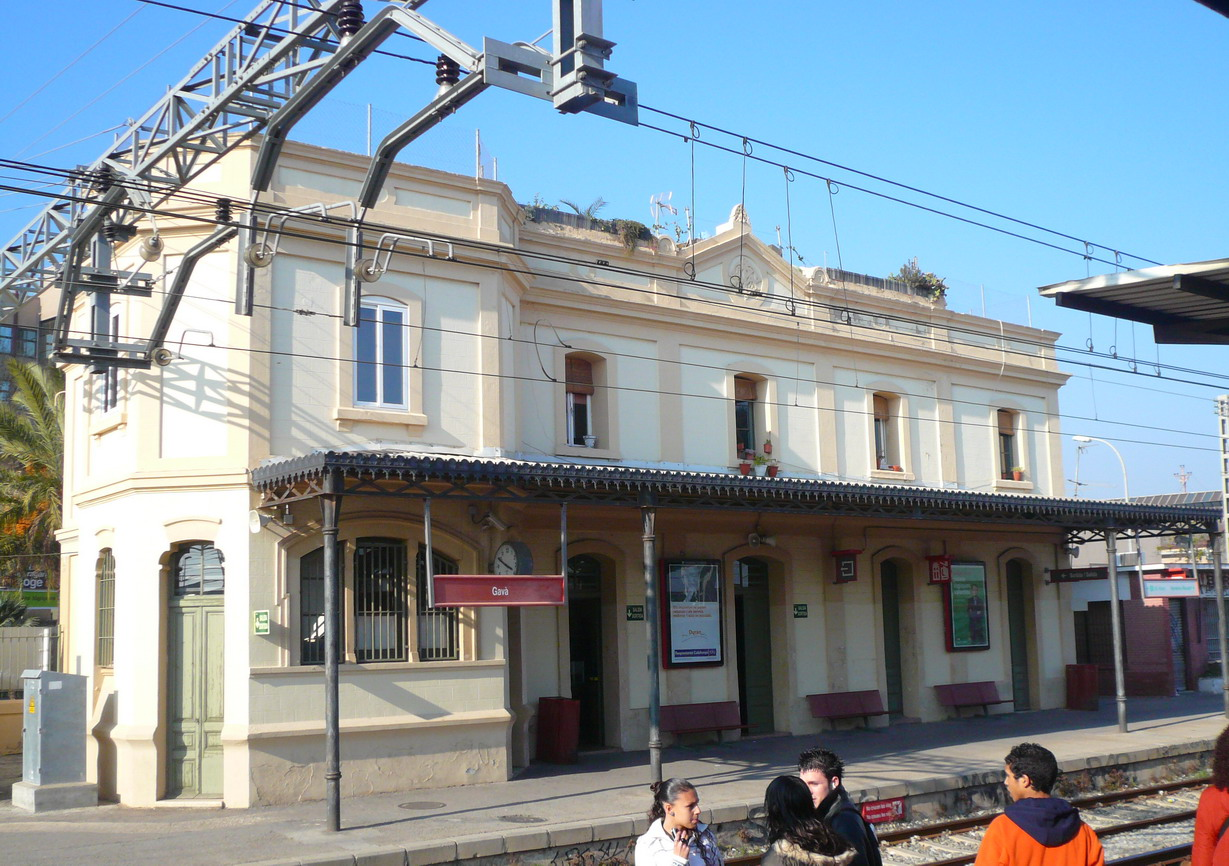 Gavà station.